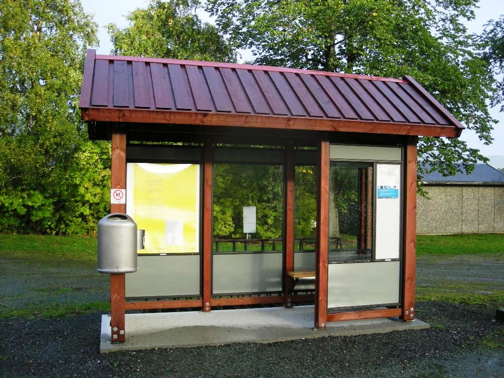 Ler station on the Dovre and Røros lines (Sør-Trøndelag, Norway)